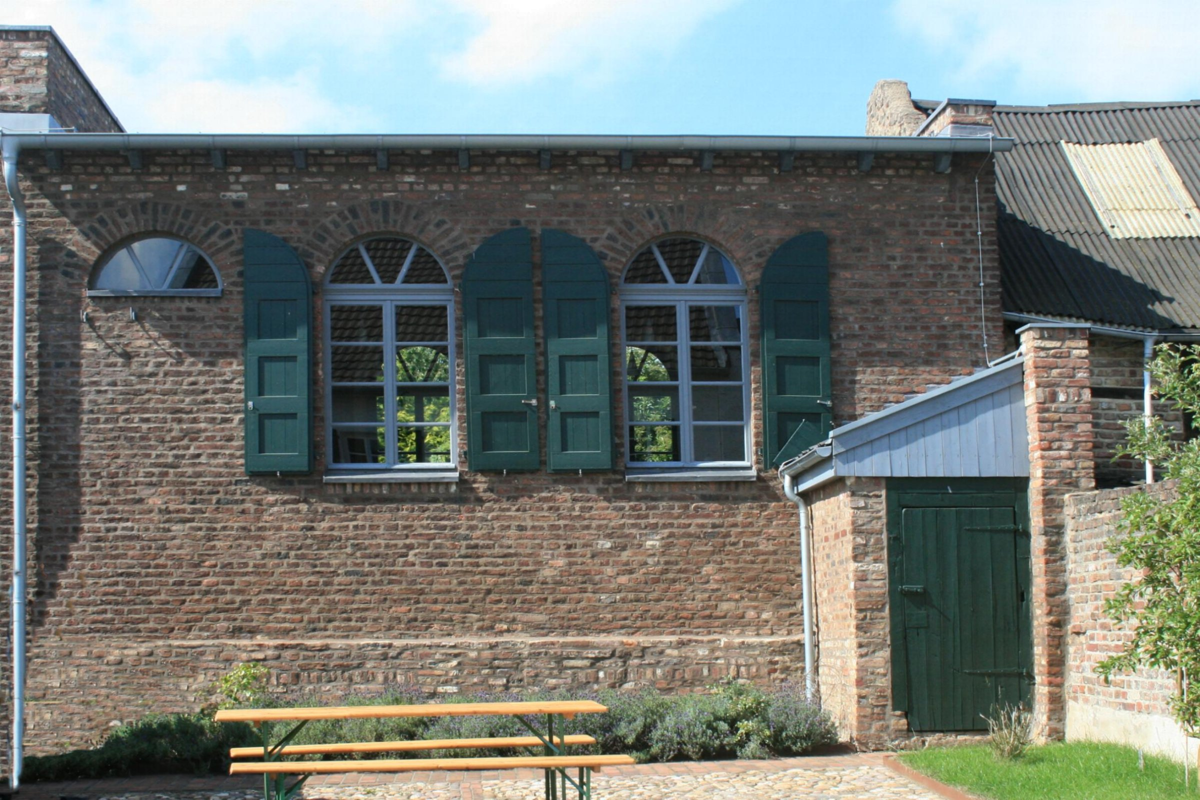 Cultural heritage monument No. 90 in Titz